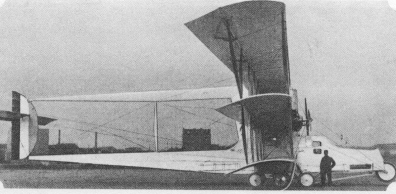 Voisin model 1915